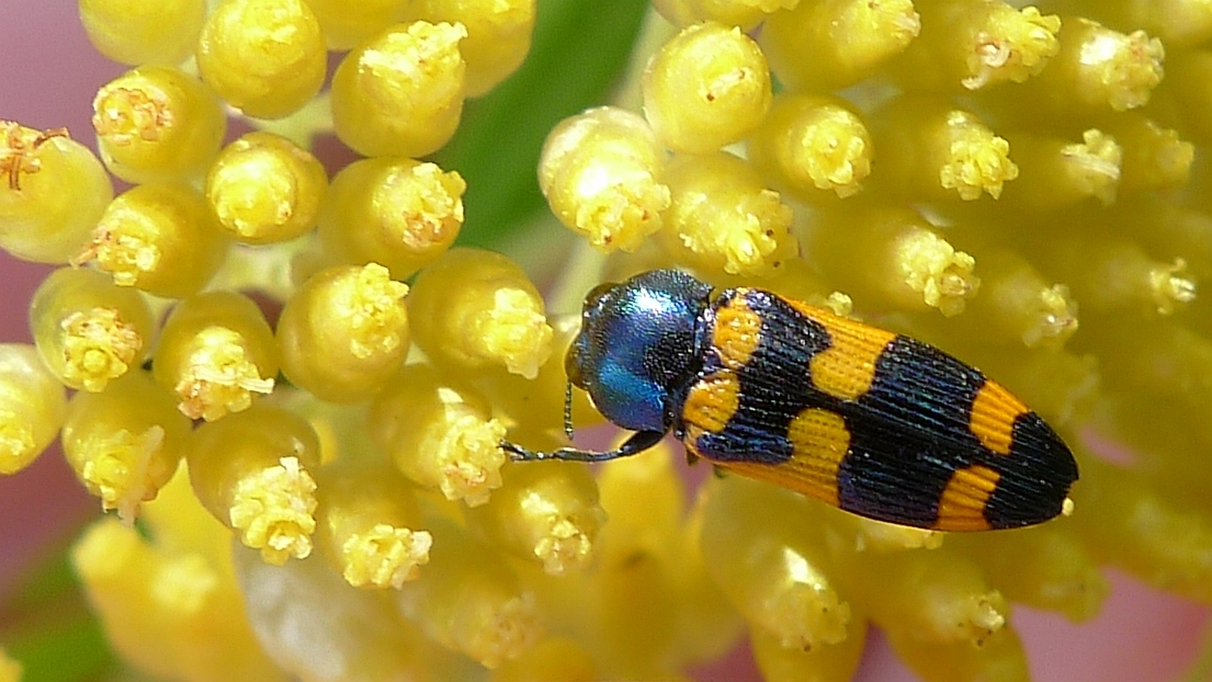 Jewel beetle, Castiarina livida, on Yellow Cassinia, Cassinia aureonitens. Royal National Park, NSW Australia, November 2012.